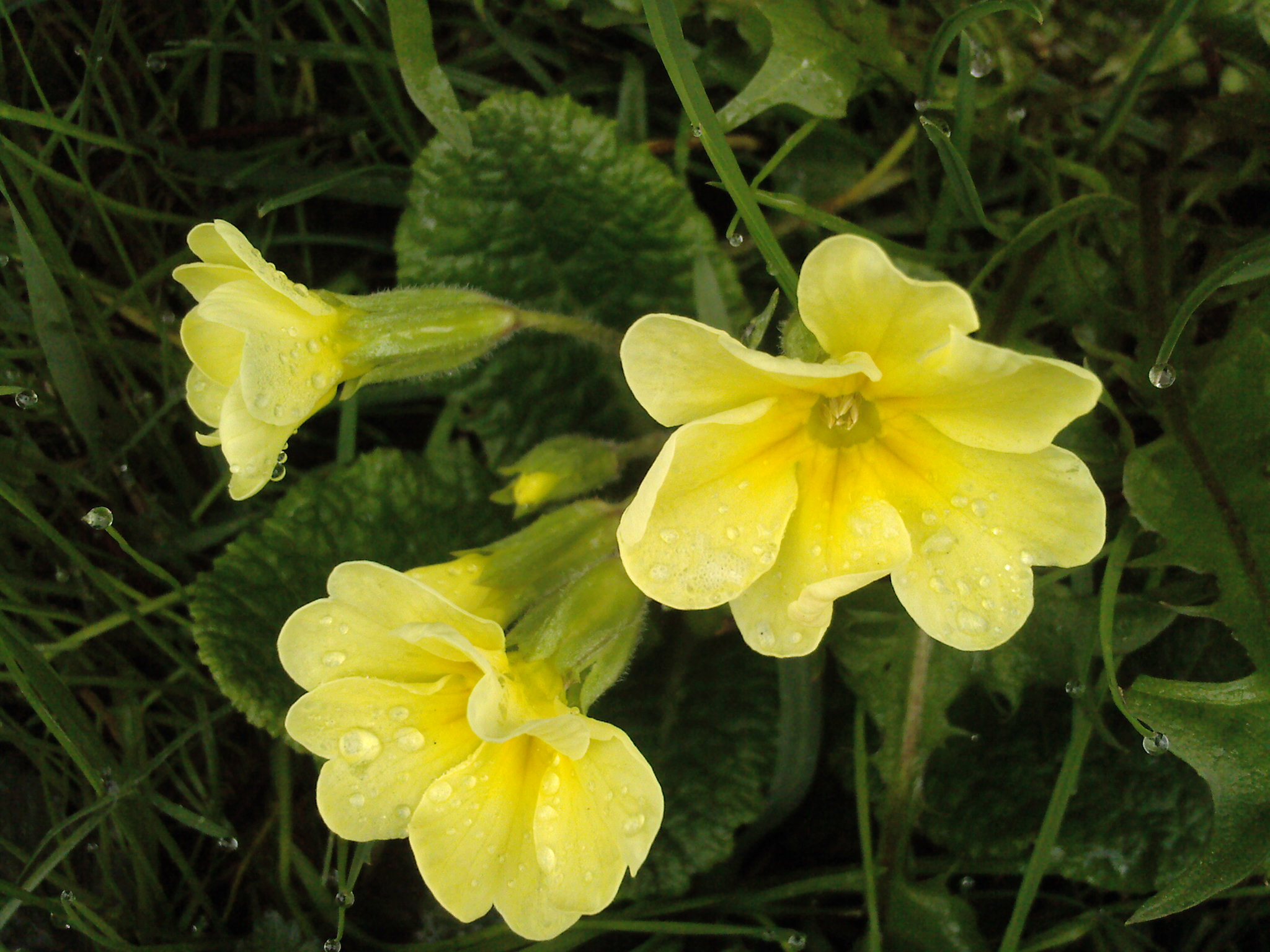 Primula vulgaris